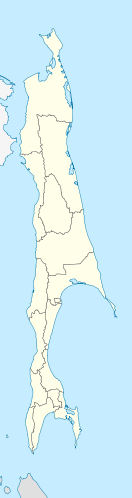 Outline Map of Sakhalin